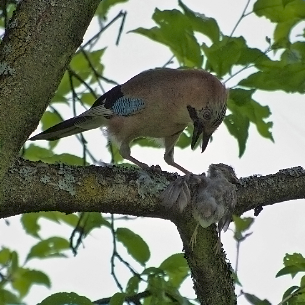 Eurasian Jay (Garrulus glandarius L.) carving prey (a young songbird)